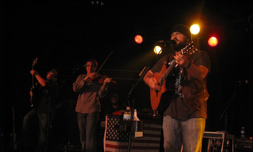 Zac Brown Band on stage